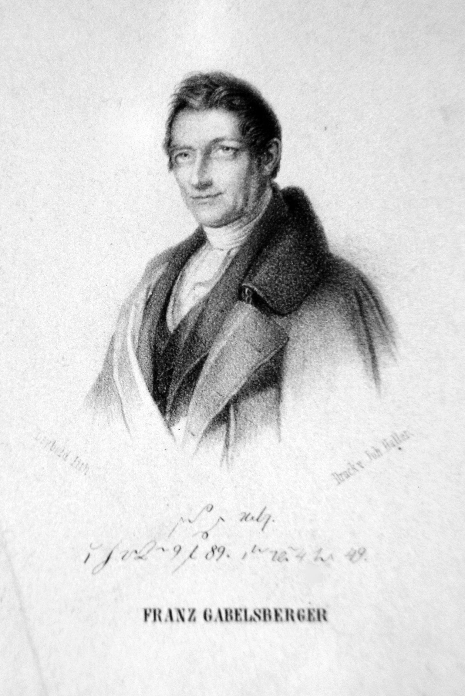 Franz Xaver Gabelsberger (1789-1849), inventor of a shorthand writing system Lithograph by E.F: Leybold, about 1840